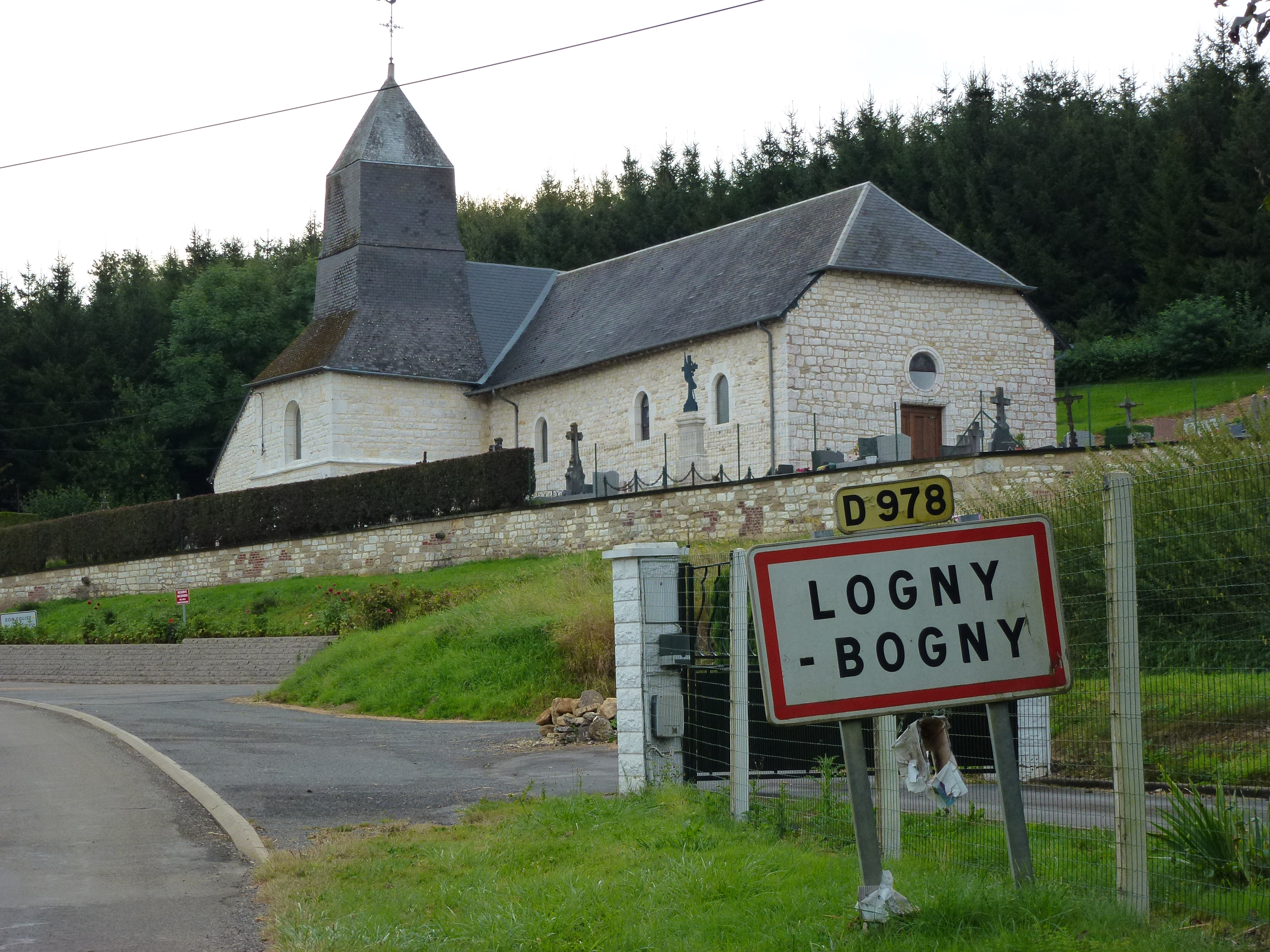 Logny-Bogny (Ardennes) église et plaque entrée village